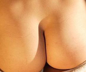 Gluteal cleft. Closeup of work by Dutch artist Peter Klashorst.